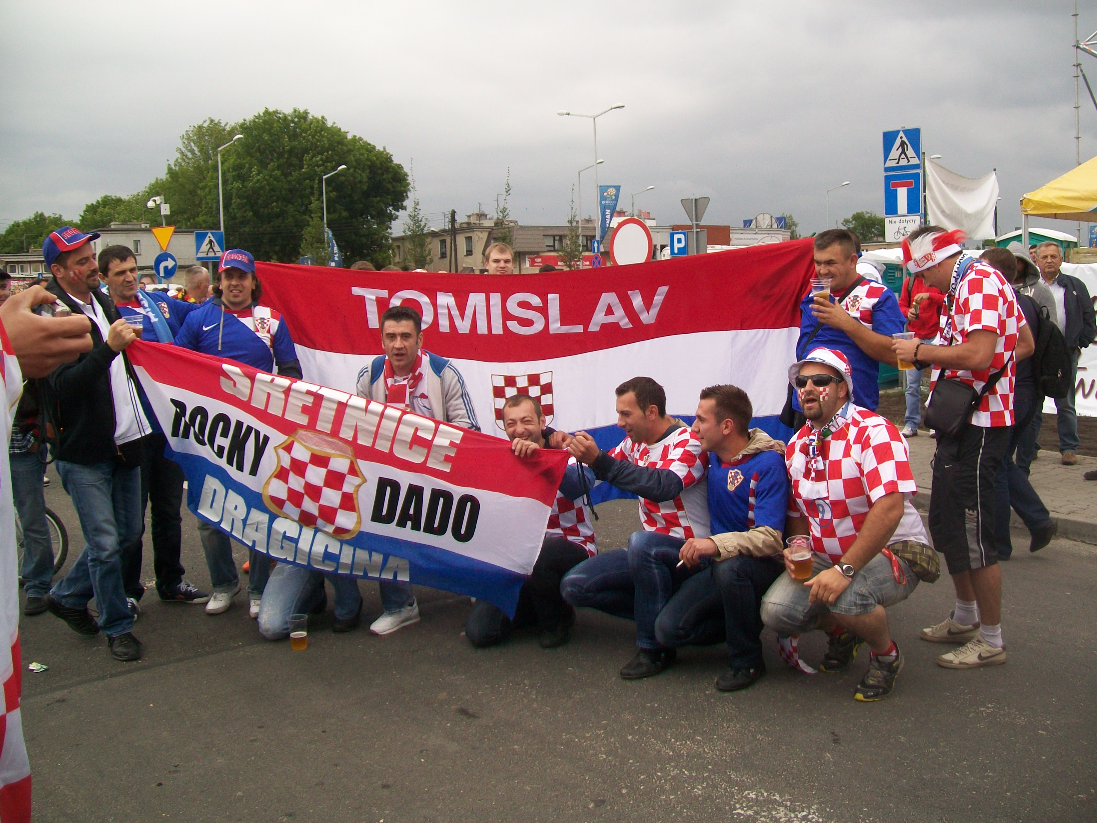 Croatian supporters before Croatia - Italy match during Euro 2012, Poznań, June 14